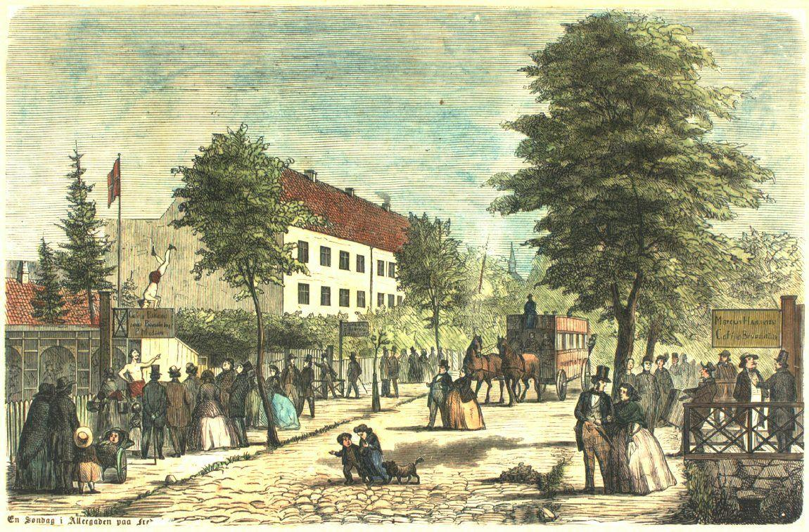 A Summer Dau in Allégade, picture from Allégade in Frederiksberg, Denmark.